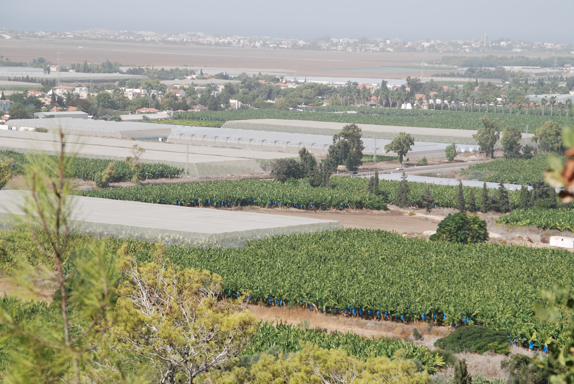 Zerufa, Agriculture in Israel